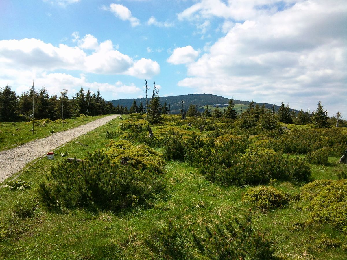 Summit of Čihadlo close to Špindlerova bouda in the Giant mountains.